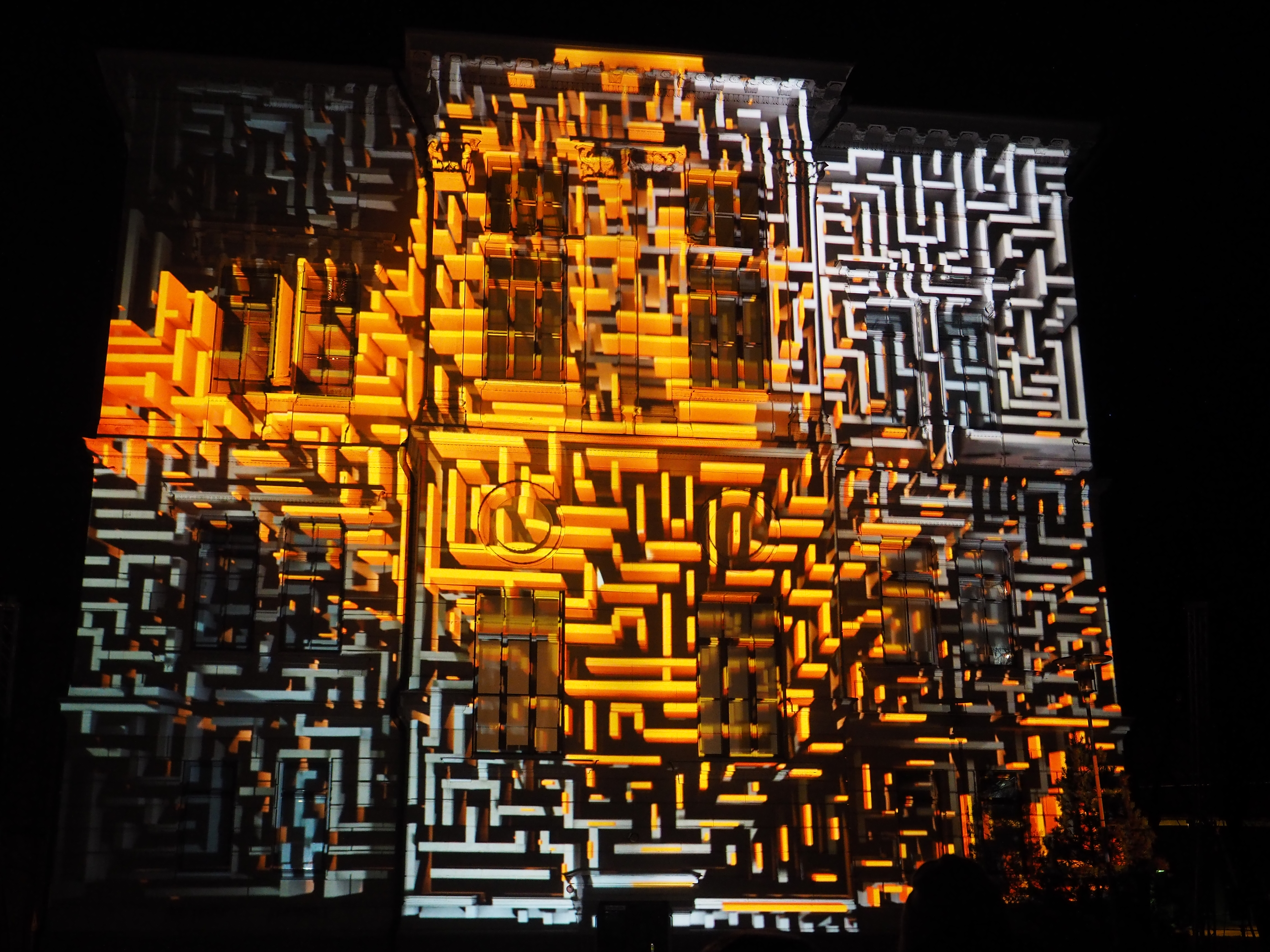 A light artwork at the Lux Helsinki 2018 event in Helsinki, Finland, in early January 2018.